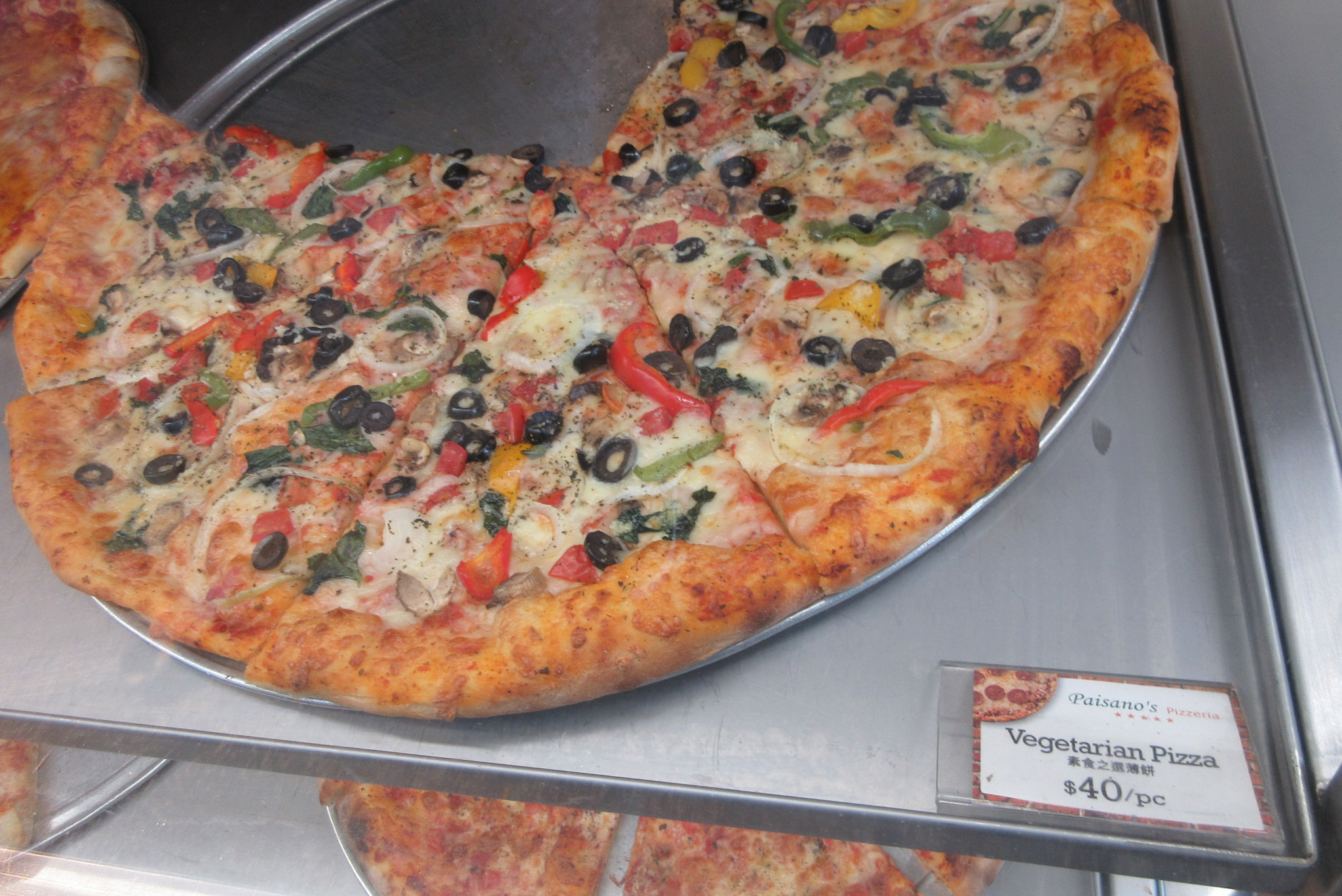 HK TST 加連威老道 Granville Road 華敦大廈 Burlington Arcade sidewalk food shop Paisano's Pizzer in June 2017